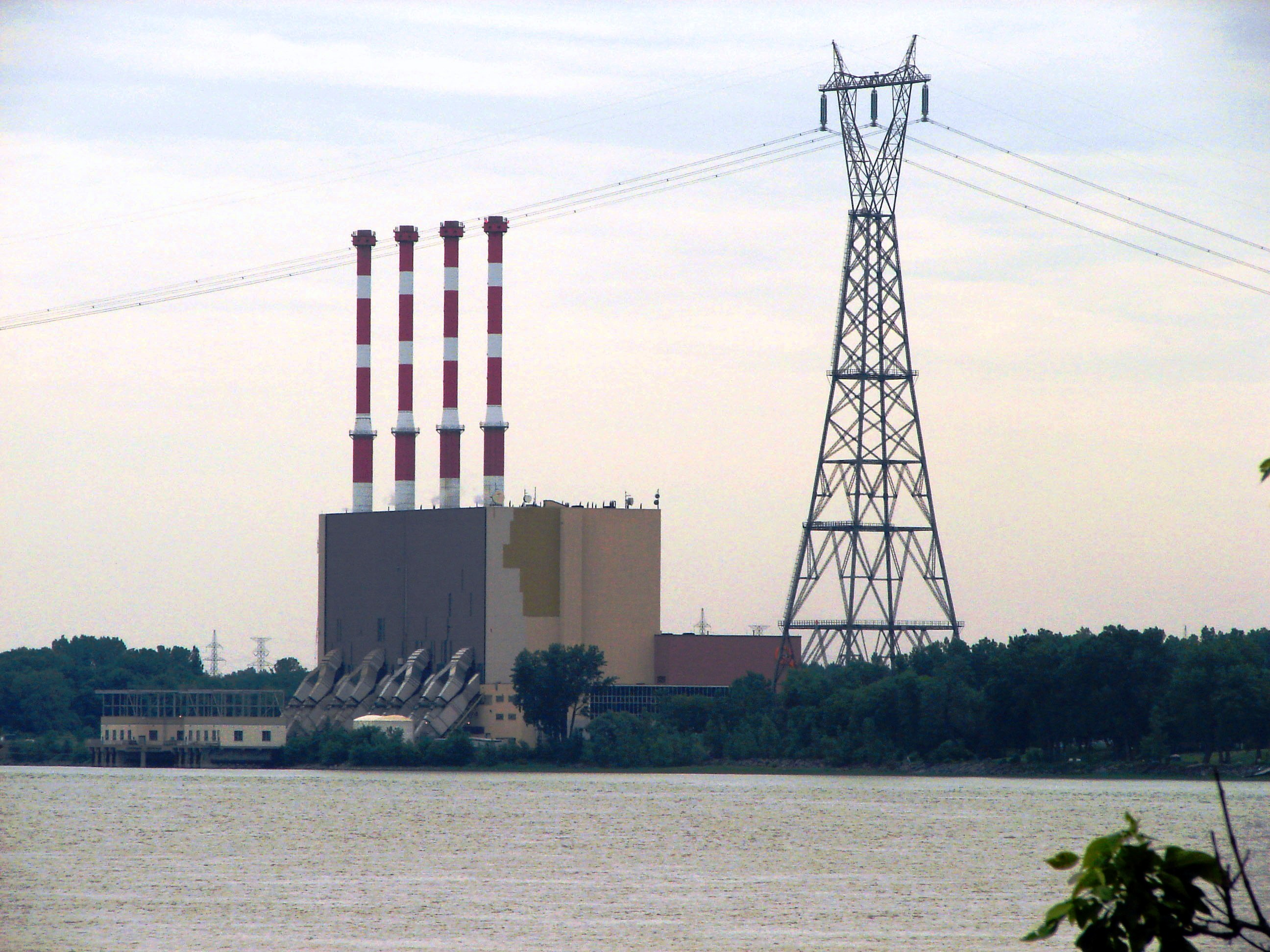 The 660-MW Tracy generating station. Opened in 1968, it is Hydro-Québec's sole oil-fired power plant.